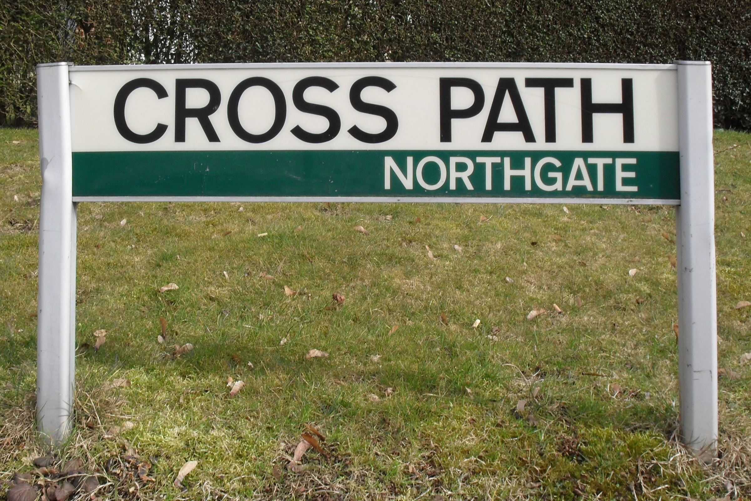 When the New Town of Crawley (in West Sussex, England) was planned, each residential neighbourhood was allocated a colour, which appeared on street name signs together with the neighbourhood's name. The Northgate neighbourhood's colour is pine green. This is a typical example of a Northgate street name sign.